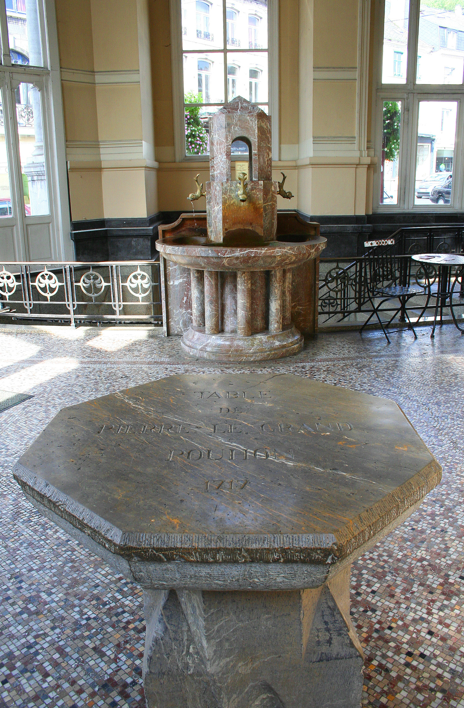 Spa (Belgium), Peter the Great's table and internal fountains of the Tzar Peter the Great's « Pouhon » (spring).